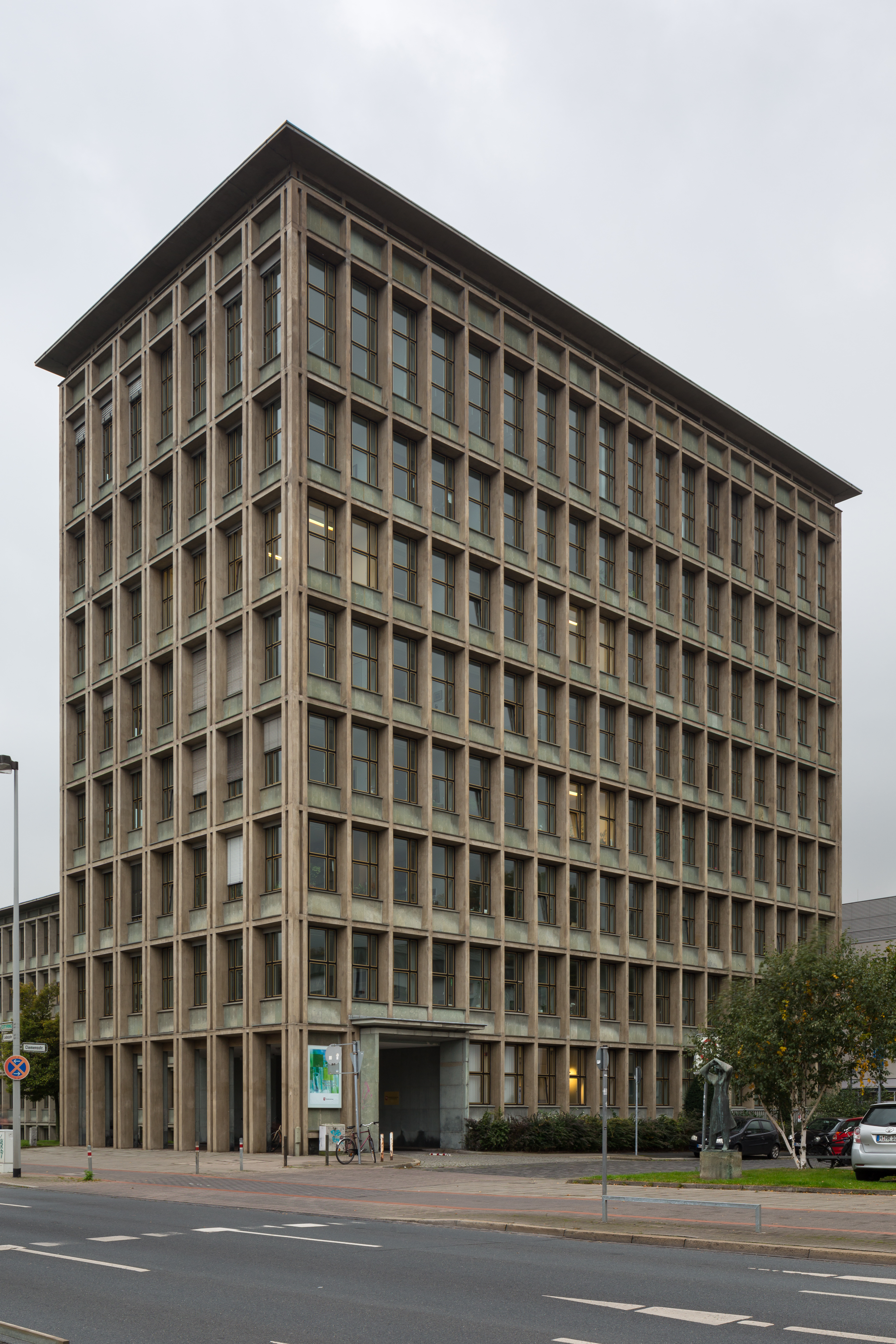 Lower Saxony's ministry for science and culture located at Leibnizufer in Calenberger Neustadt quarter of Hannover, Germany.